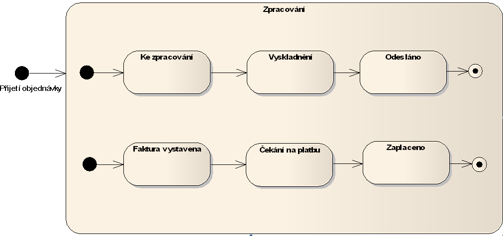 Ortogonal pseudostate